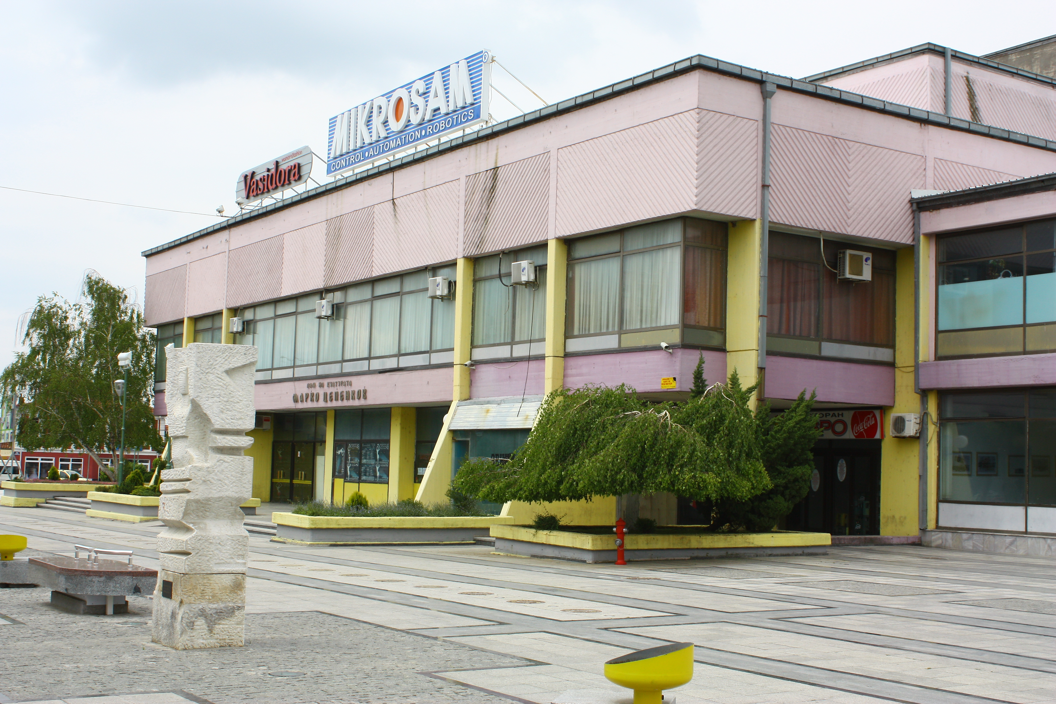 Prilep, Macedonia